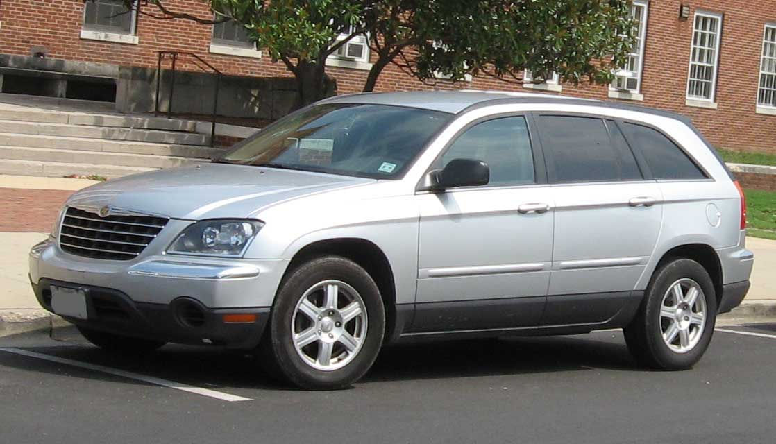 2004-2006 Chrysler Pacifica photographed in USA.